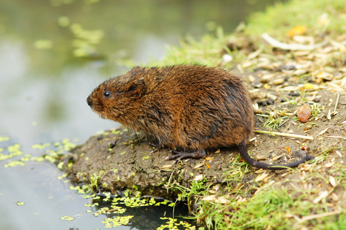 Water vole at the British Wildlife Centre, Newchapel, Surrey.